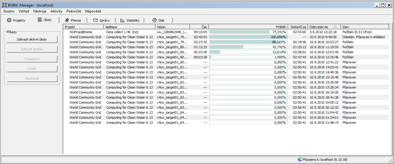 BOINC clients window with two running projects (WCG - C4CW and WUProp)